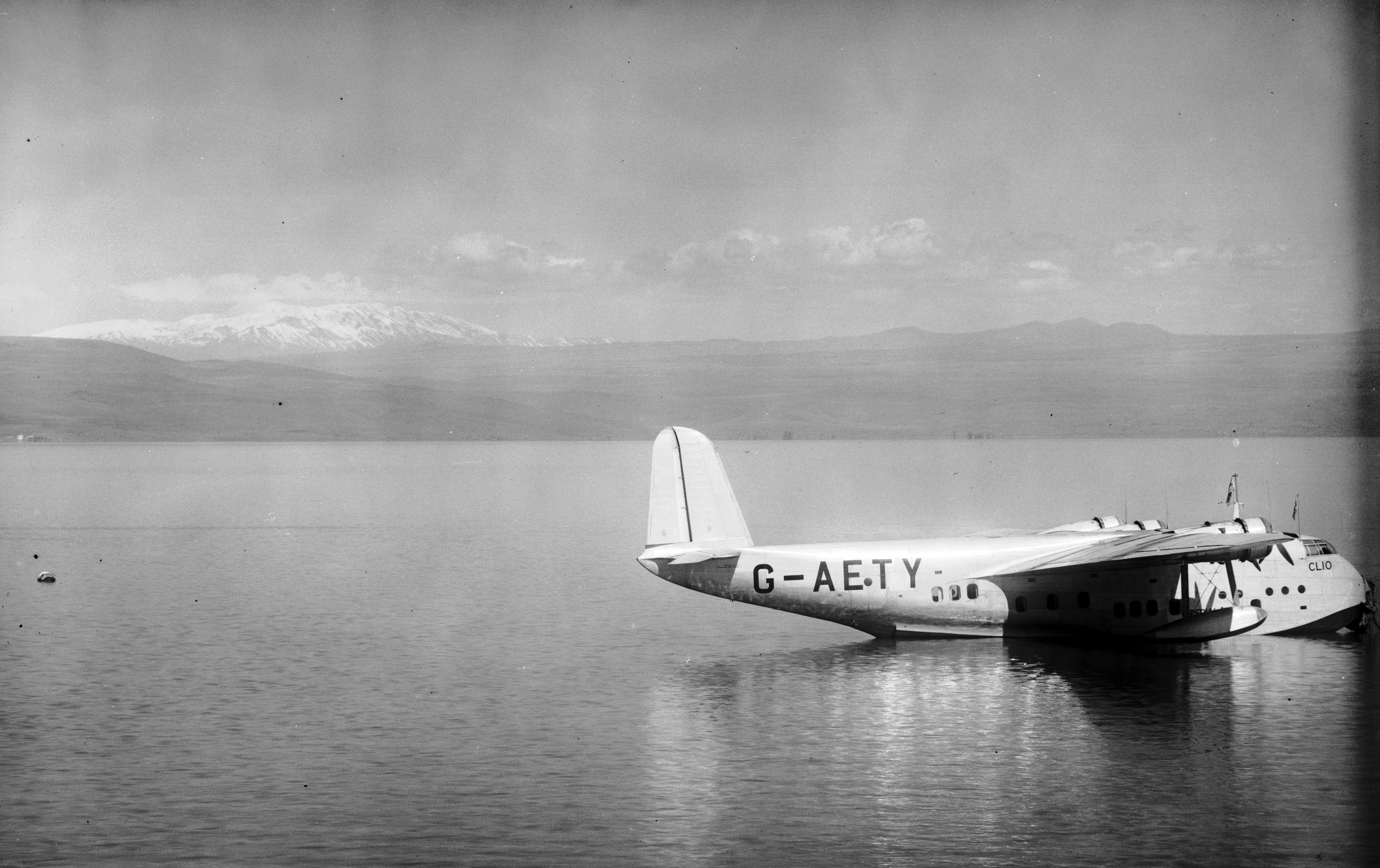 ALido, flying boat Clio. Flying boat "Clio" on the lake with snow-capped Hermon.